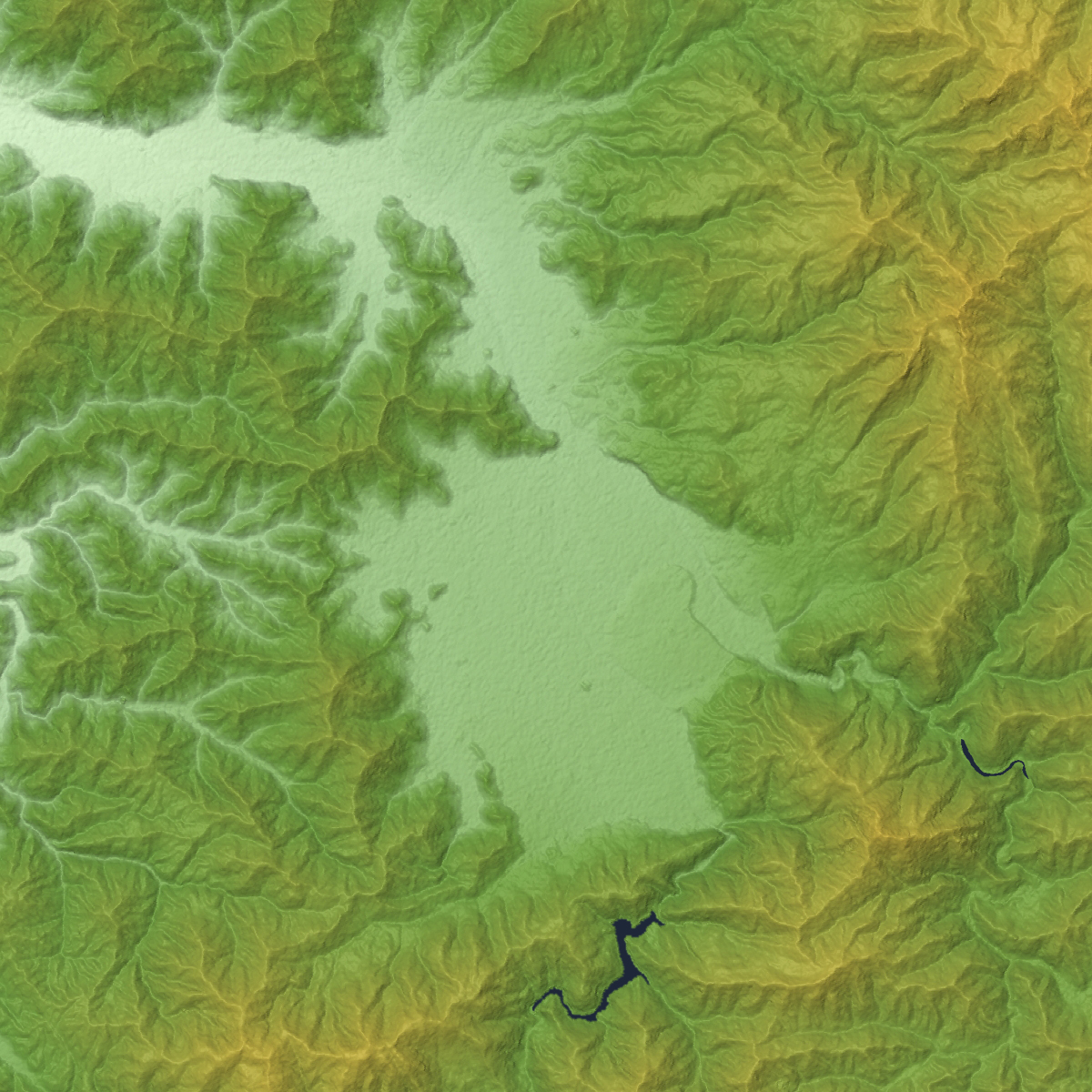 Ōno Basin in Fukui Prefecture, Honshu, Japan.